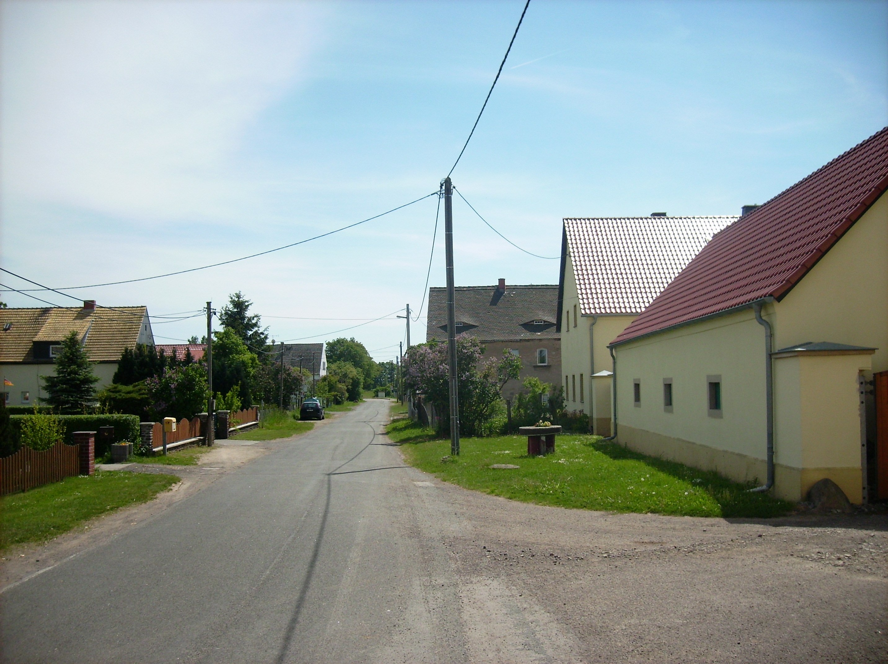 Main street of the village of Radegast (Dahlen, Nordsachsen district, Saxony)